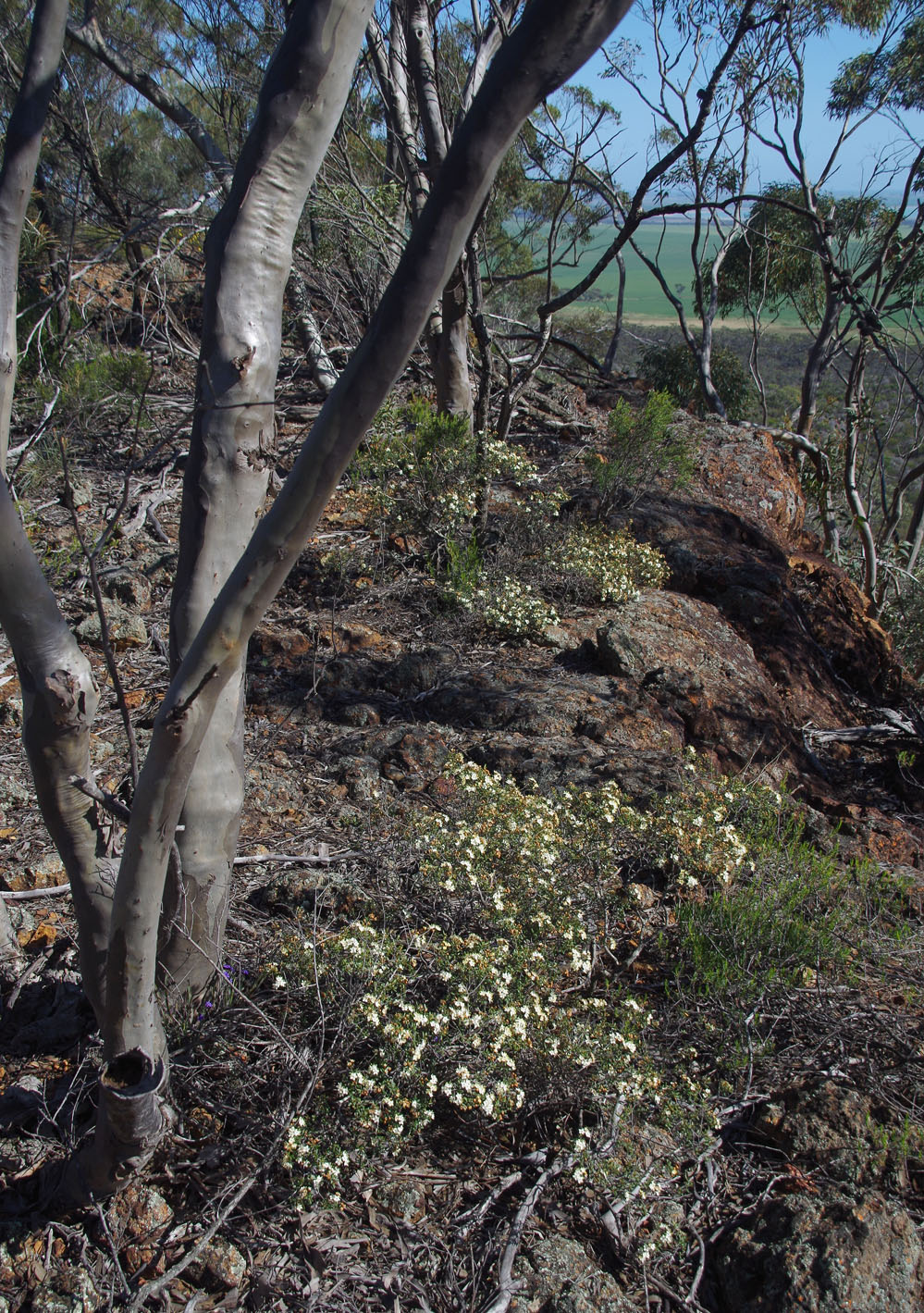 Phebalium megaphyllum on Mt O'Brien, Wongan Hills, Western Australia